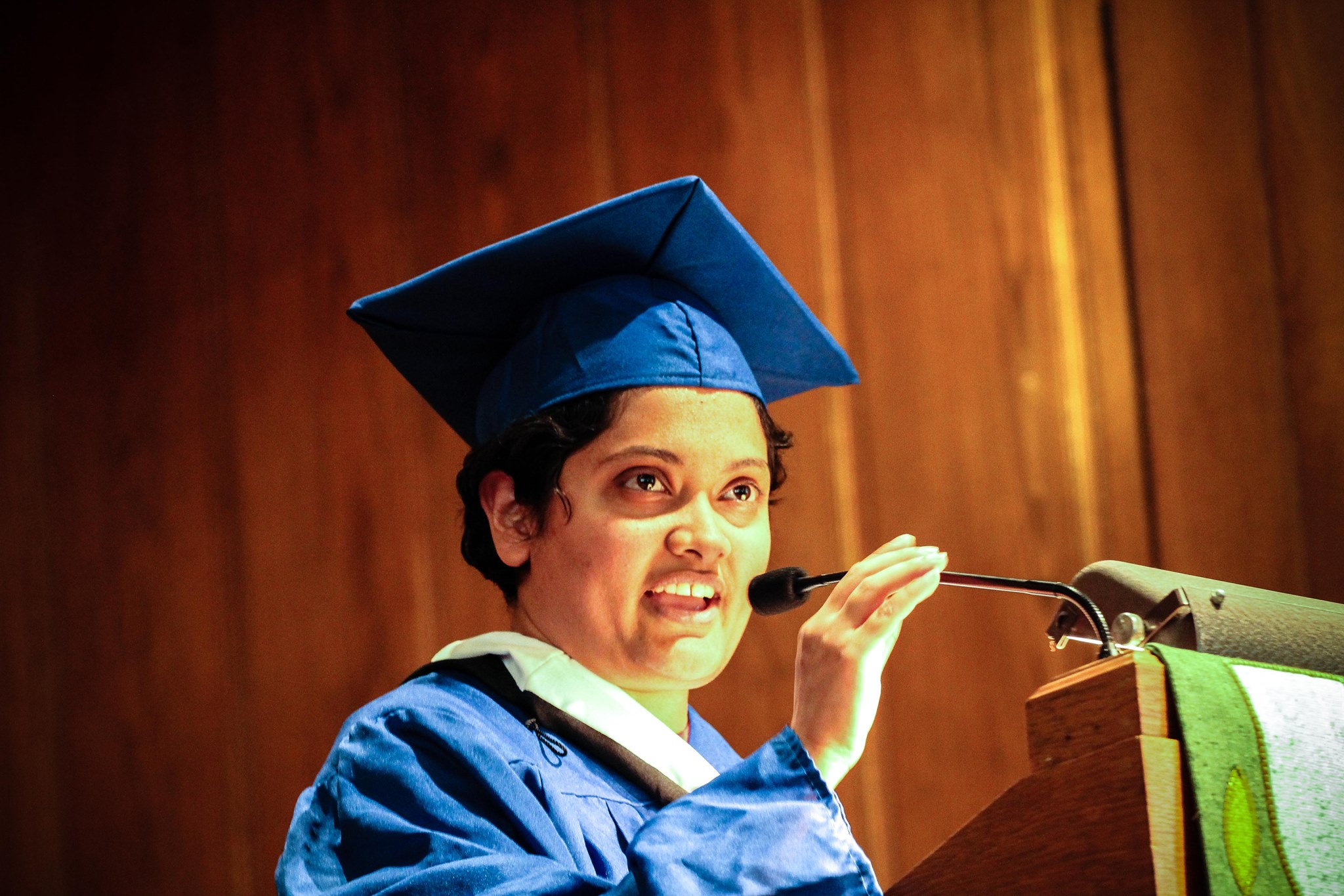 Prerna Lal giving the keynote speech at a mock DREAM Act graduation ceremony in Washington D.C. in 2012.